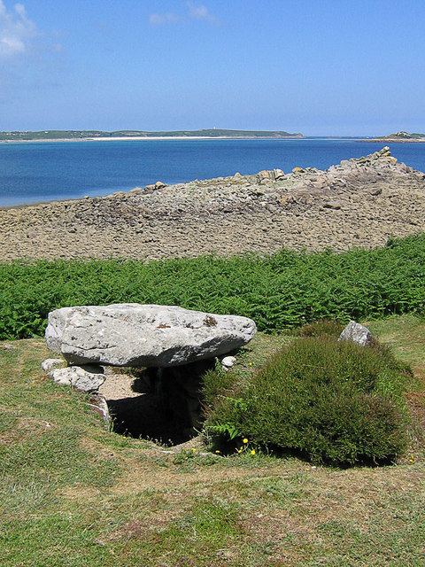 Entrance Grave at Inisidgen, St Mary's, Scilly These so-called 'Entrance Graves' are really grave entrances. There are many of these on Scilly, mainly on St Mary's. The entrance here leads to a small chamber. On another occasion, when it was pouring rain, the chamber contained about six people sheltering! Beyond is St Martin's and Great Gannick.